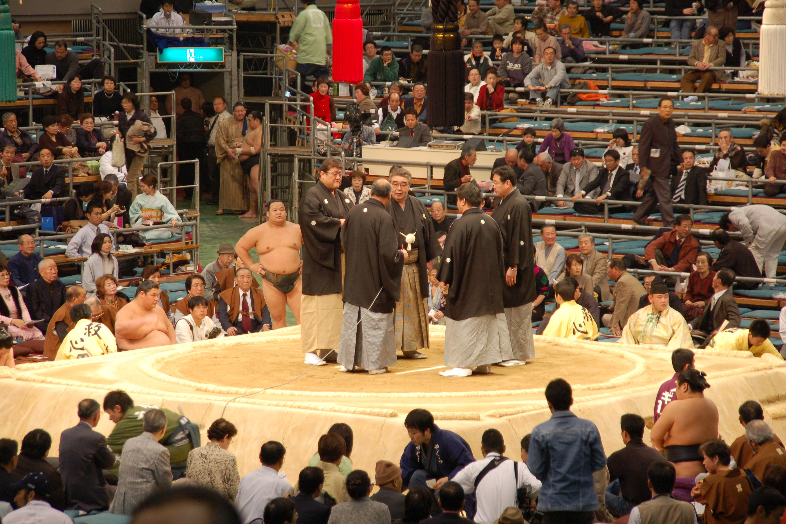 Five shimpan deliberating on a sumo bout's result, Haru-basho 2006十両取組＊物言い